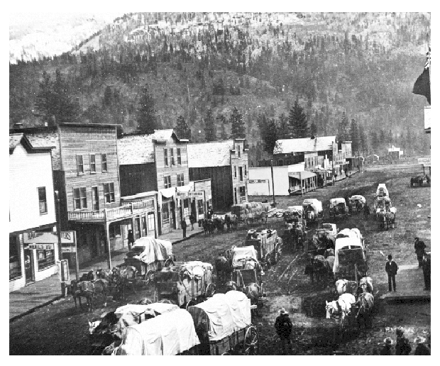 Photographer:Unknown Photo taken:1898 Source:BC Archives #B-06600[1]